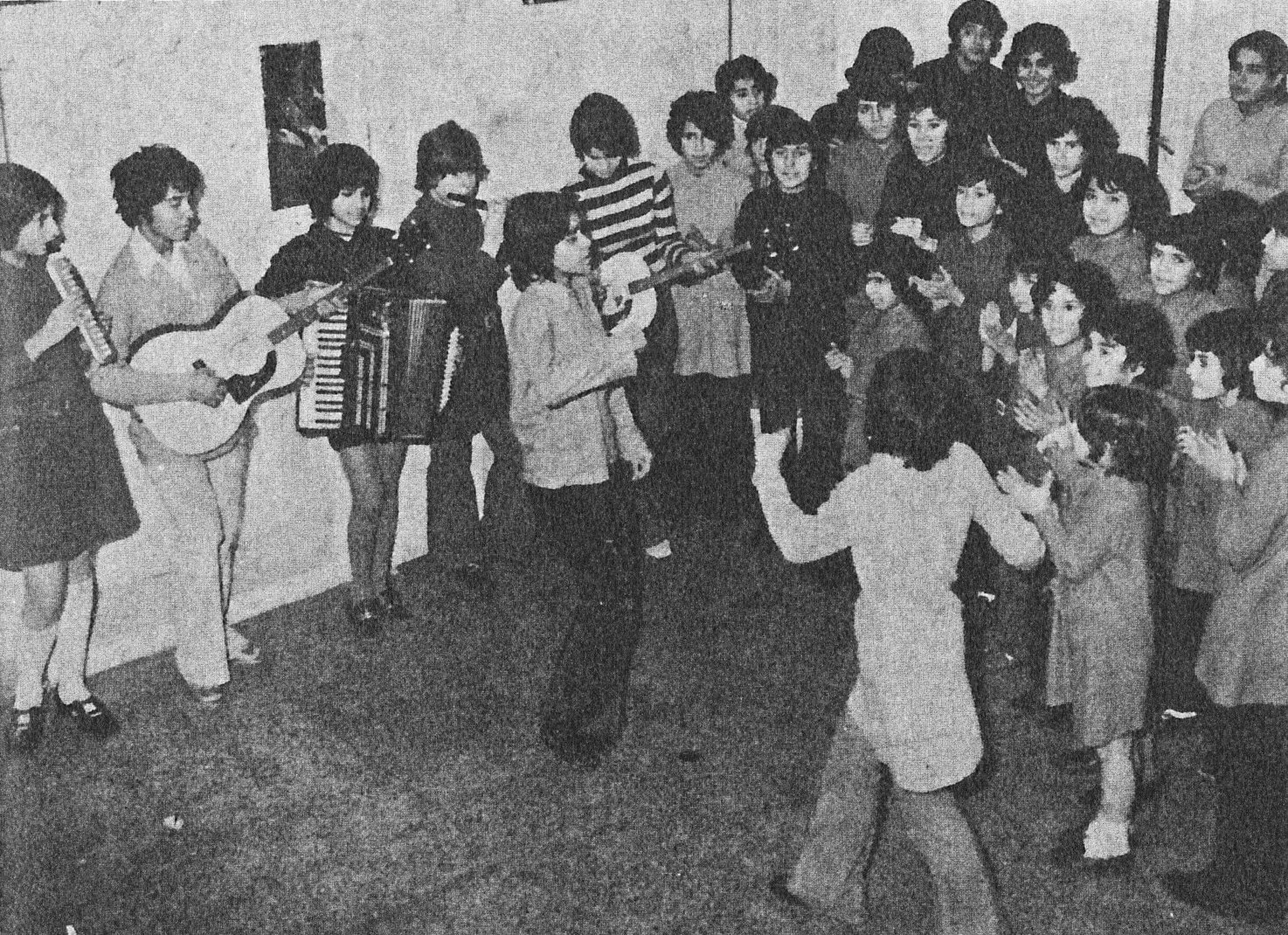 child development centers for children from problem families, Iran